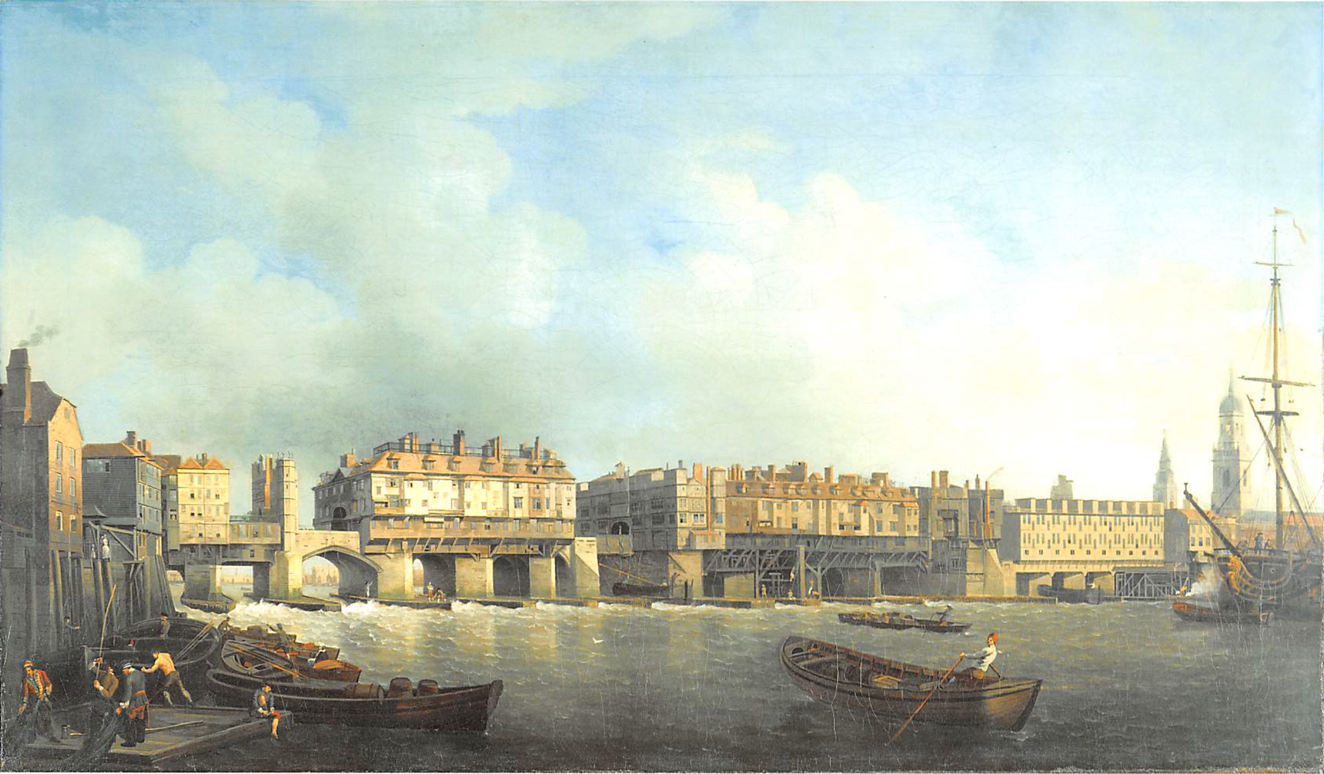 London Bridge before the alteration in 1757 by Samuel Scott